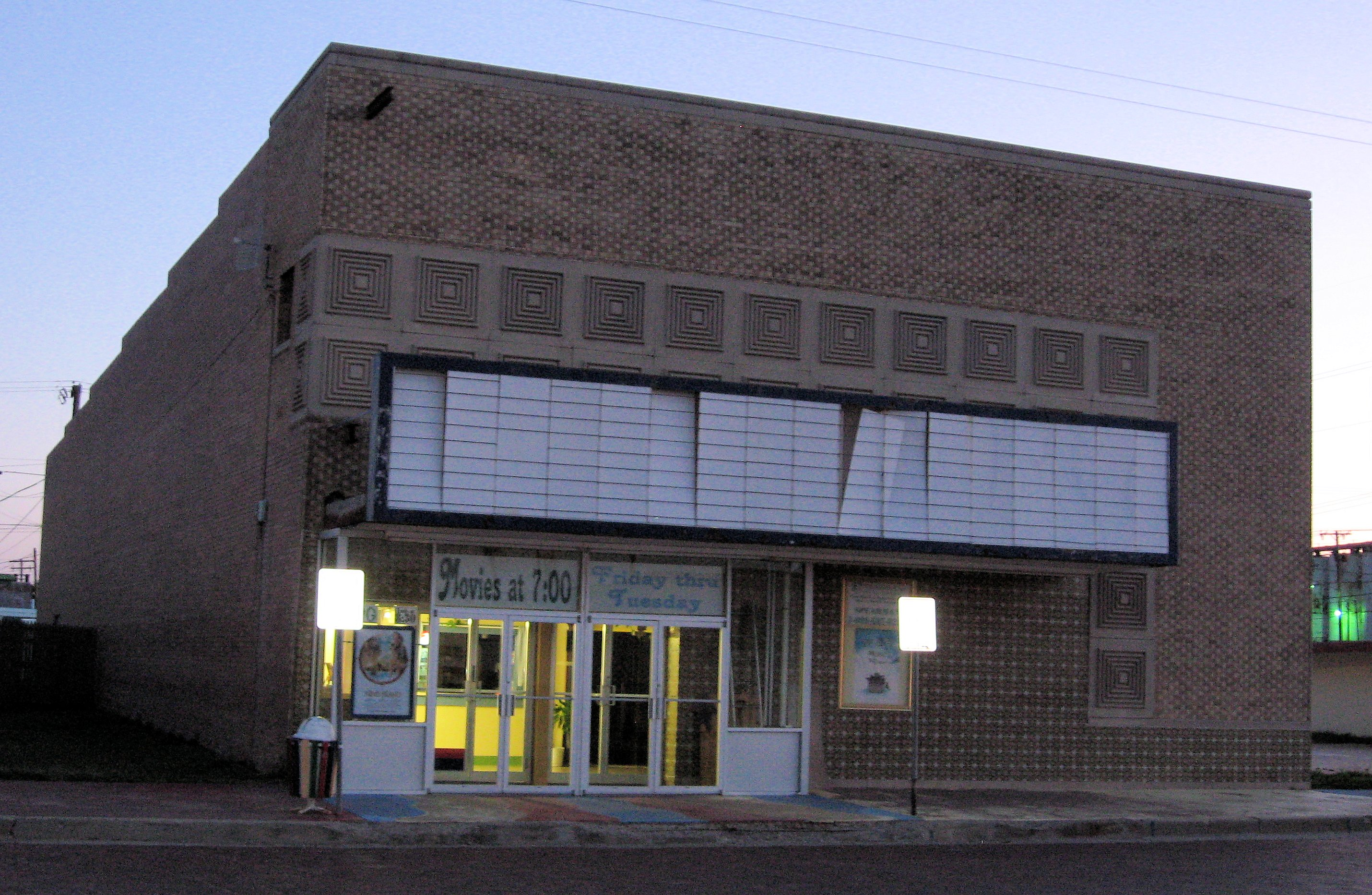 The Lyric Theater in Spearman, Texas, U.S.